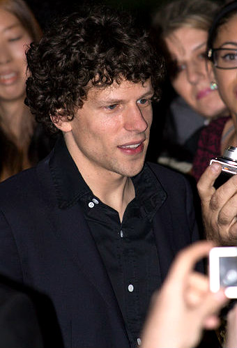 Cropped version of the photo of Jesse Eisenberg at the Toronto International Film Festival 2013